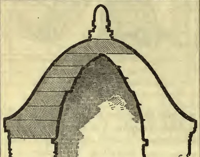 Angkor Wat vault